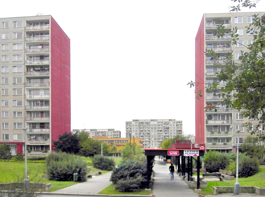 Dědinova Street at Chodov in Prague, Czech Republic.